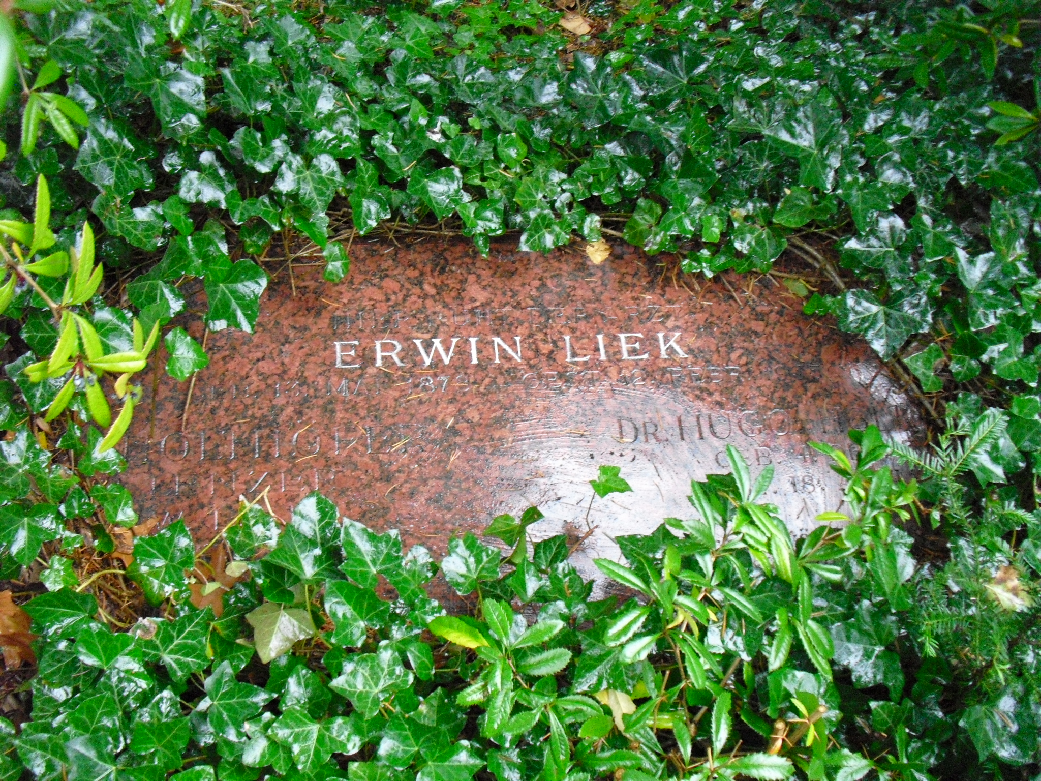 Grave of German physician Erwin Liek at Friedhof Heerstraße in Berlin-Westend